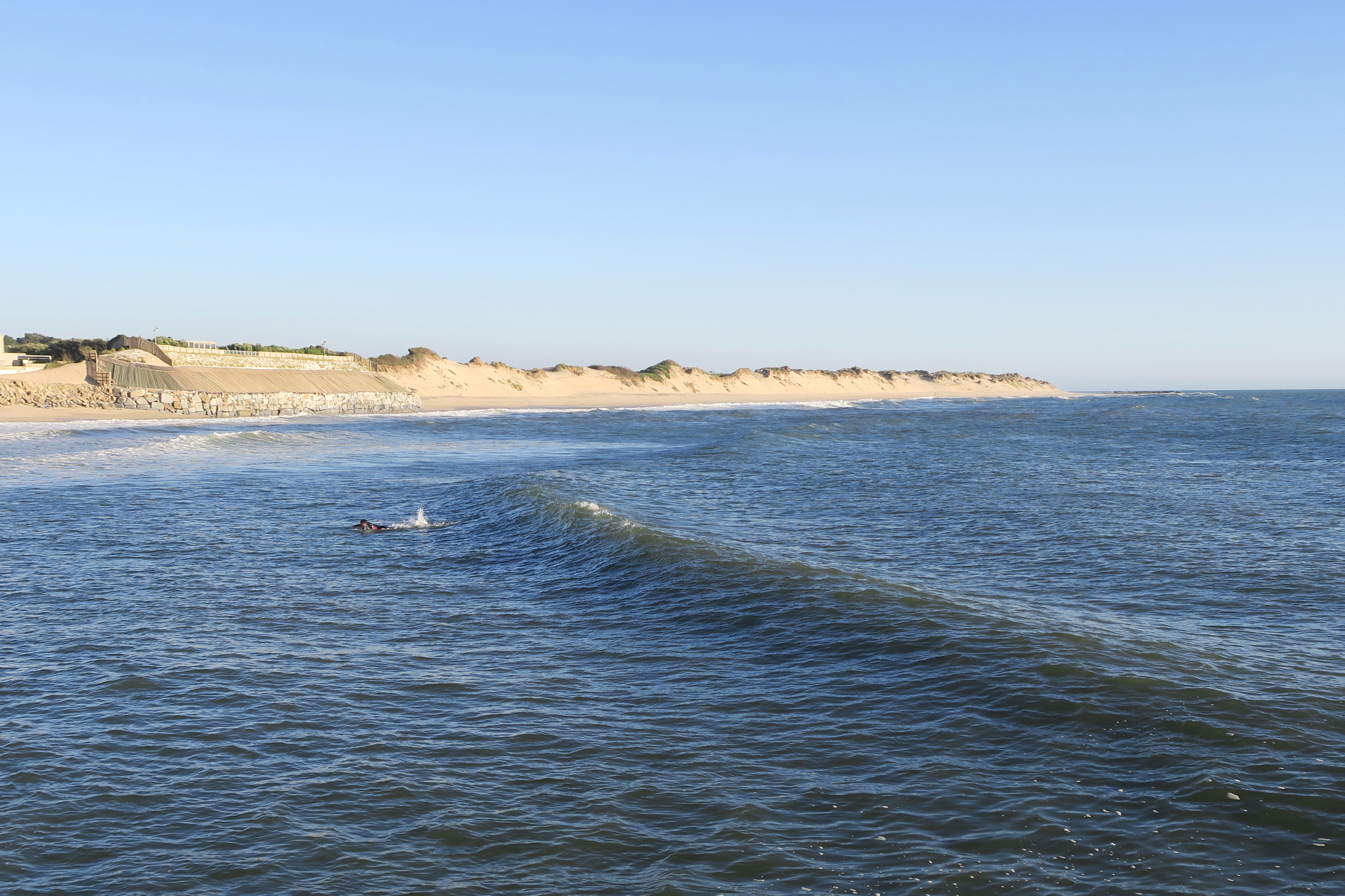 Dunes between Ofir and Apulia, Esposende, Portugal